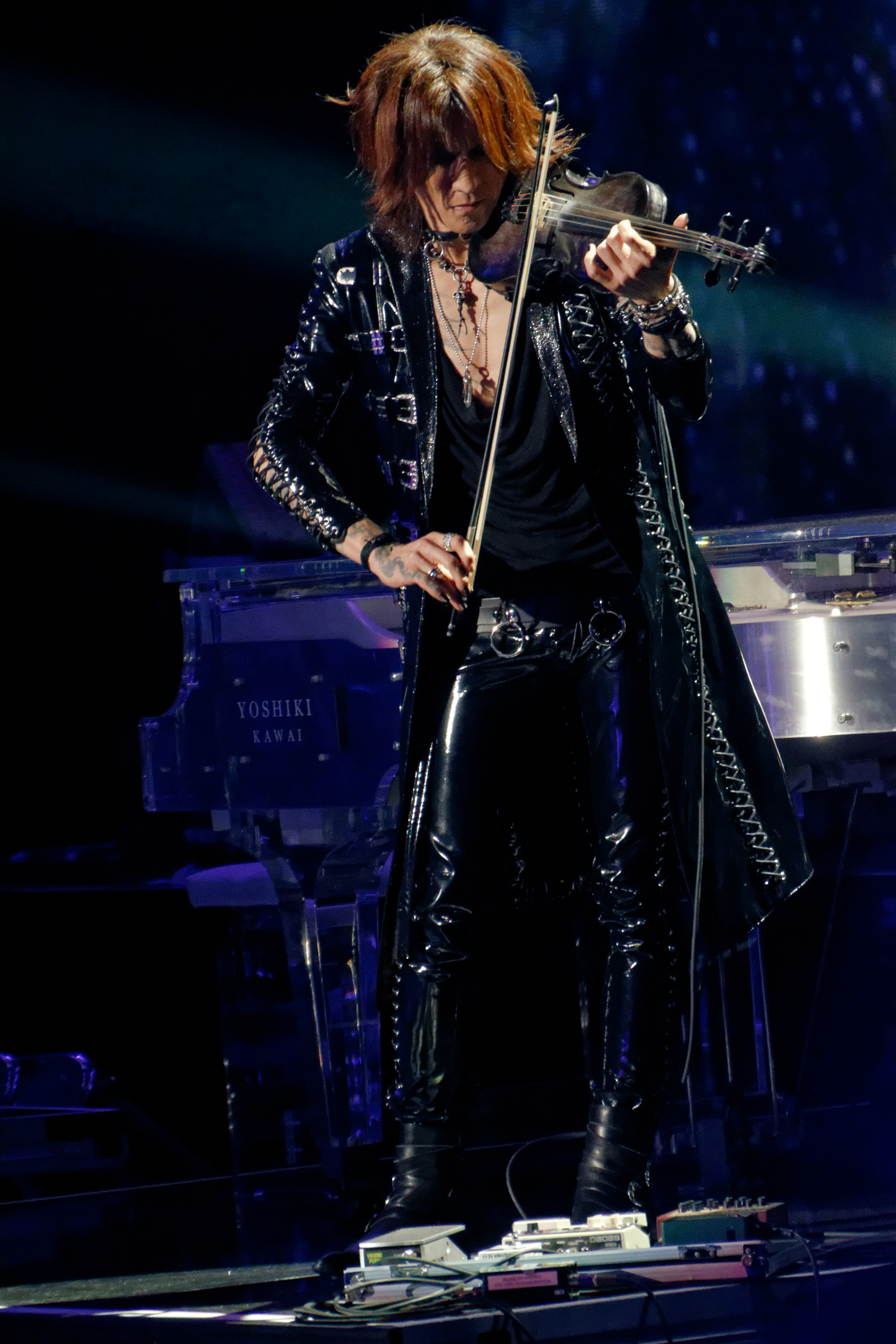 Sugizo playing the violin at X Japan live concert at Madison Square Garden in New York City on Saturday October 11th, 2014.